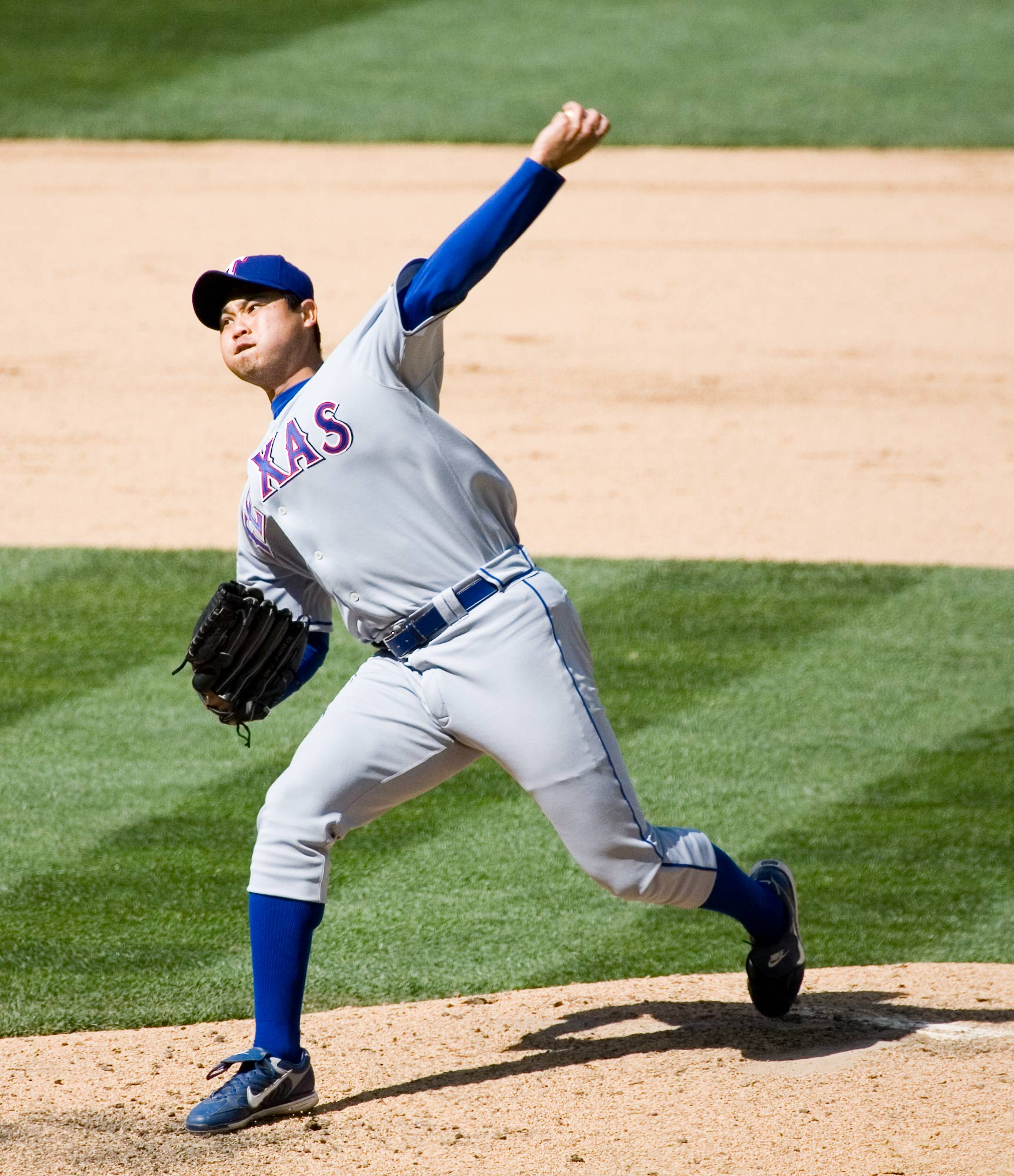 Bruce Chen throwing a pitch